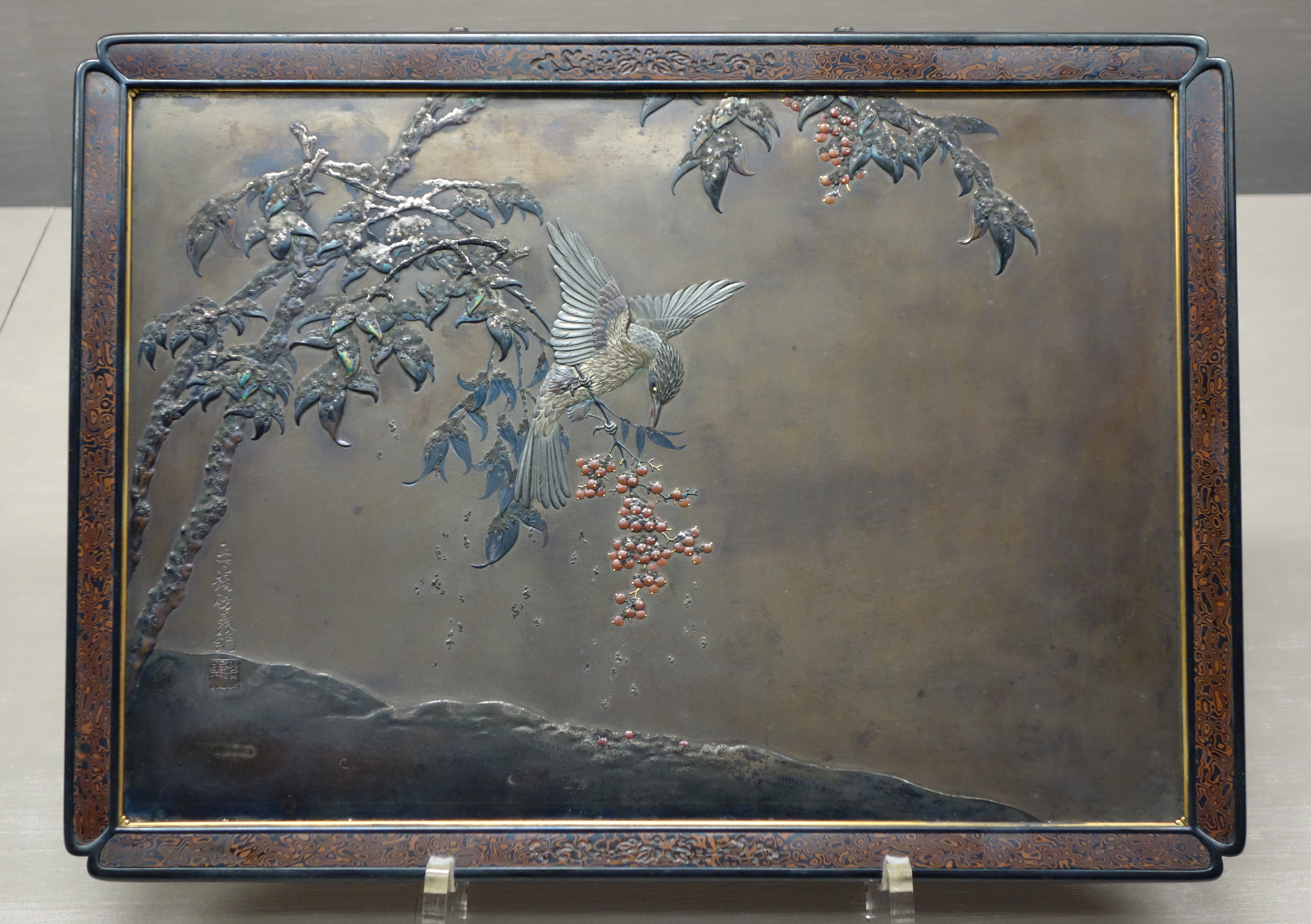 Exhibit in the Tokyo National Museum, Tokyo, Japan. This artwork is old enough so that it is in the public domain.